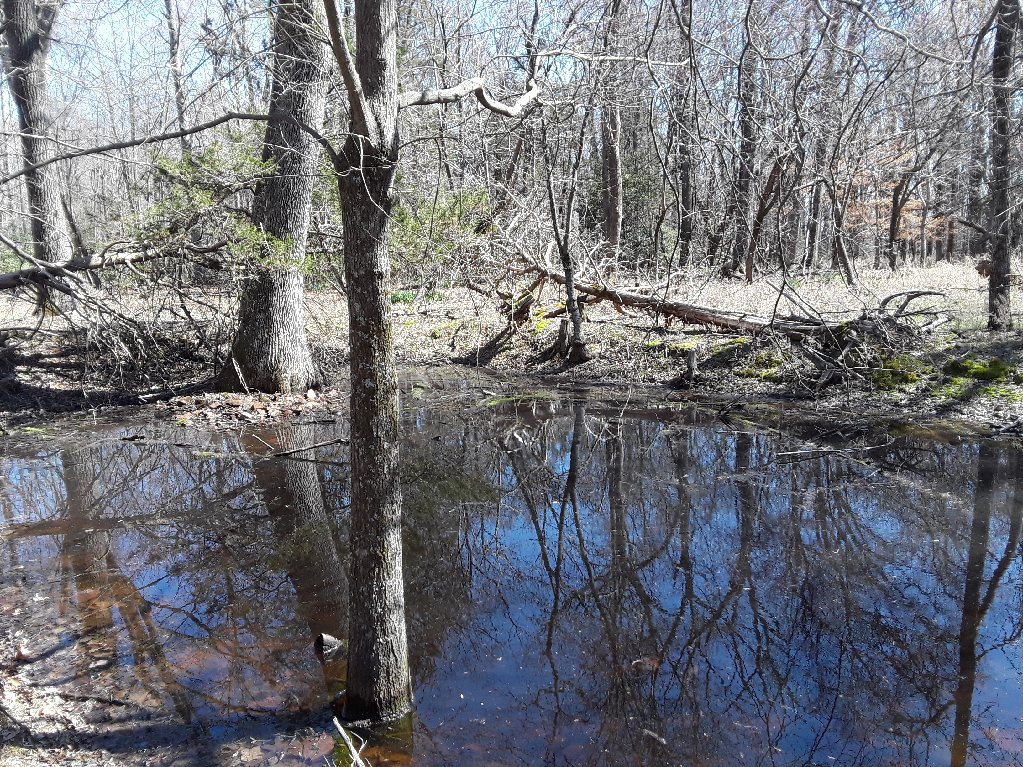 Ruins of the cellar of Lexington, a plantation house formerly owned by George Mason V